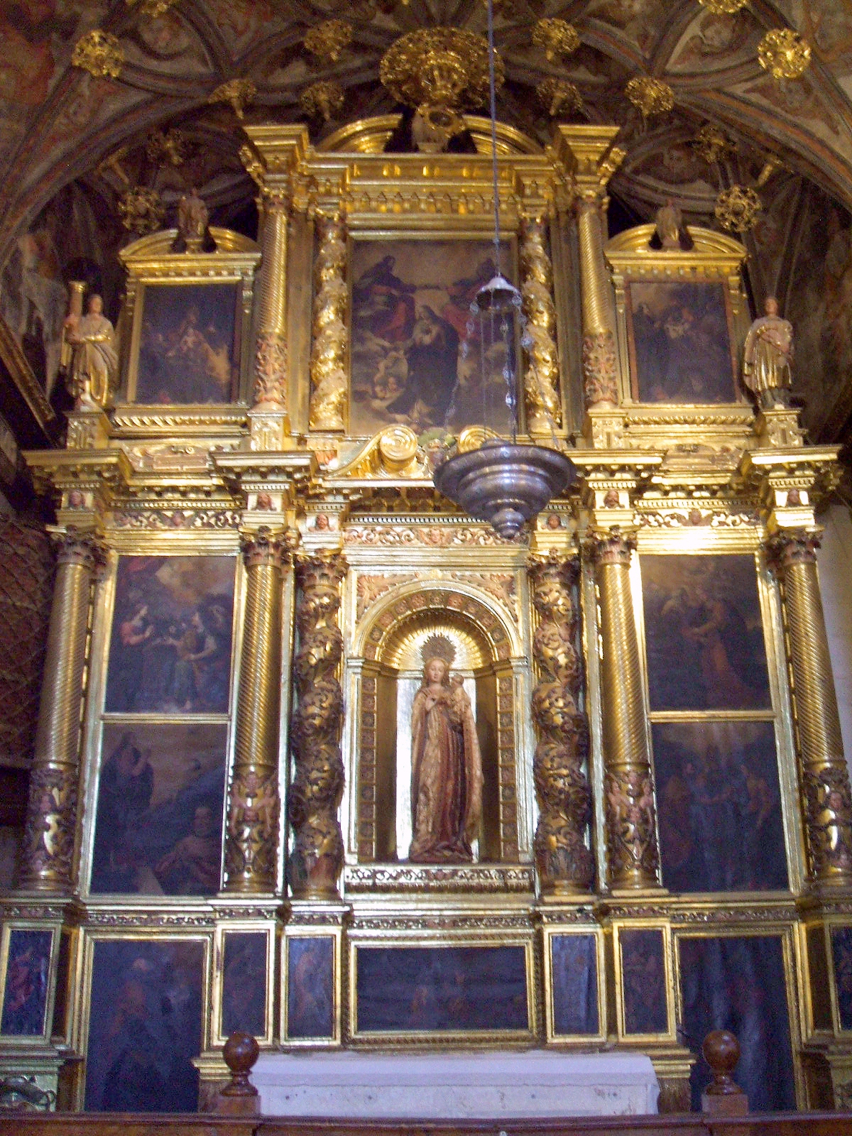 Retablo barroco de la Capilla de la Virgen Blanca, en la Catedral del Salvador (La Seo) de Zaragoza (Aragón, España)